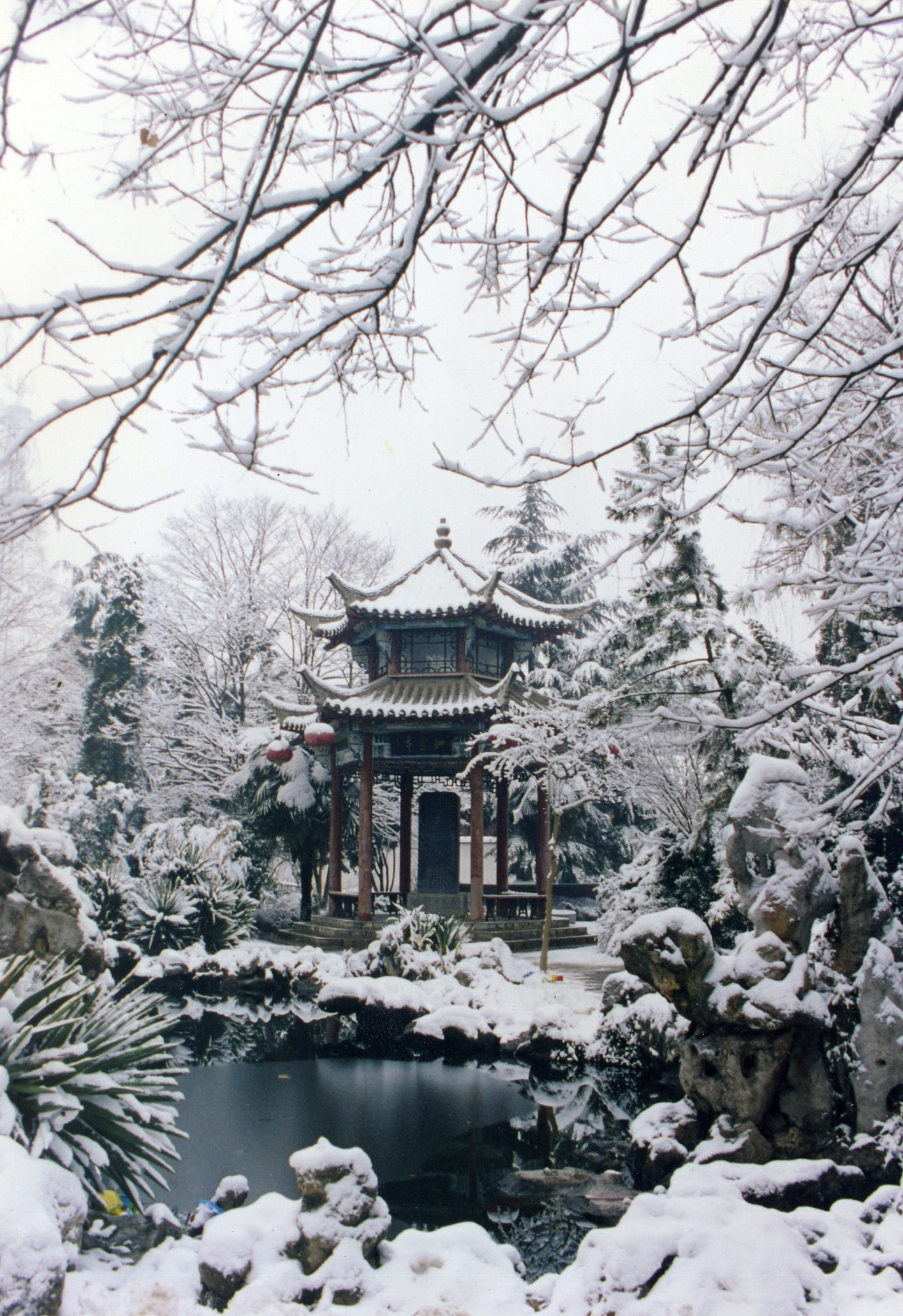 I took the photo in the winter of 2004 about .it snowed so big that i go to the park with my Nikon FM2 using Kodark 100 Film.